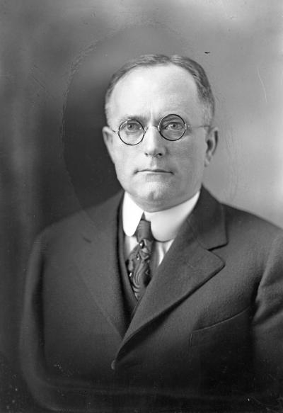 Senator William Wray